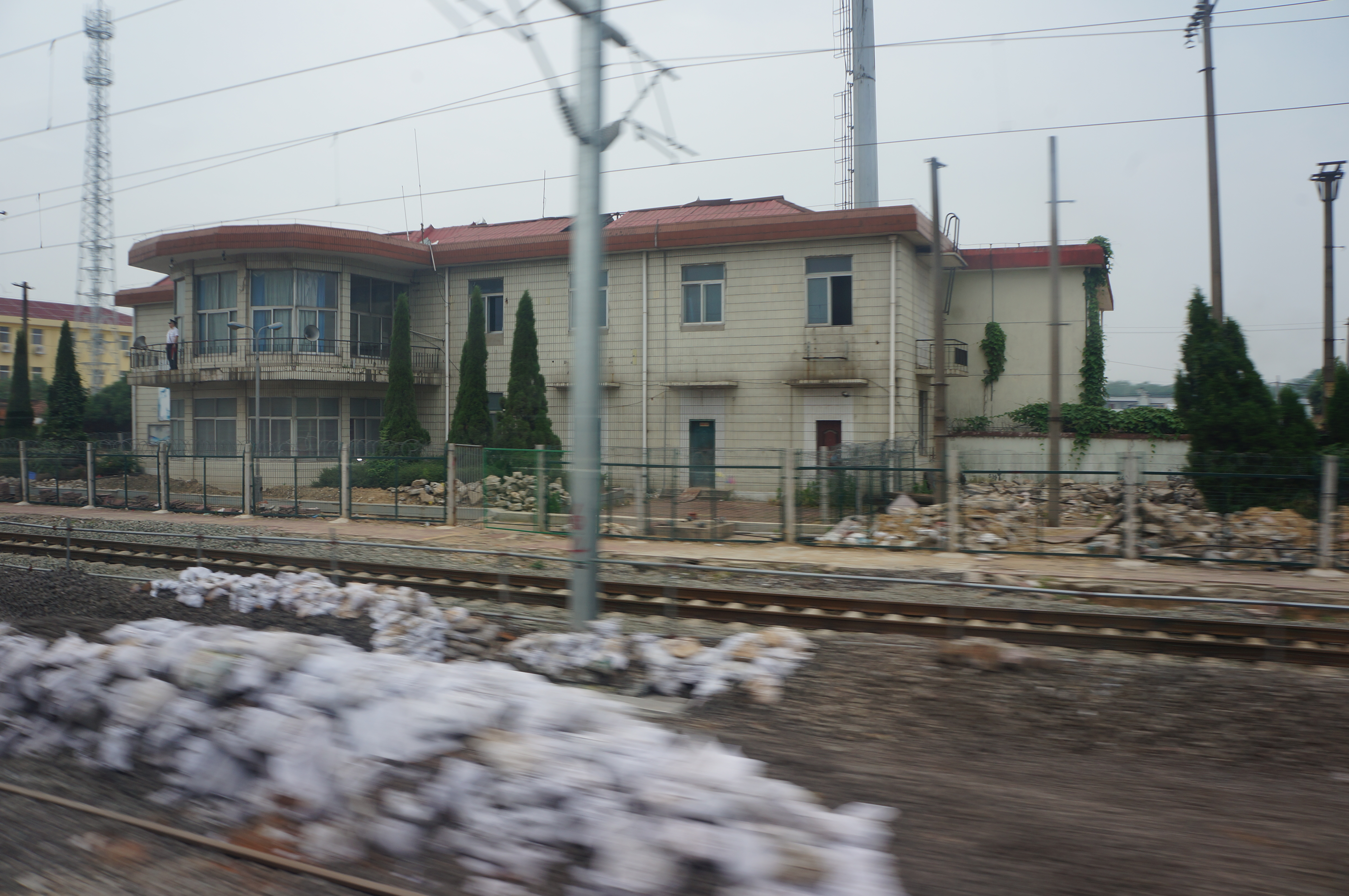 201705 Henggang Station under construction in order to inter the Nanchang–Ganzhou HSR into Nanchang hub